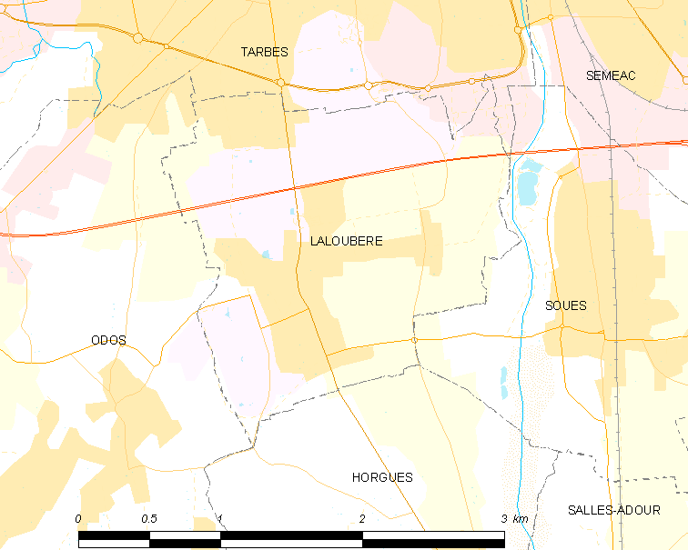 Map of French municipality